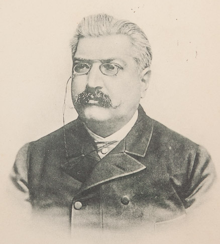 Postcard with picture of Manuel Pinheiro Chagas (1842-1895)